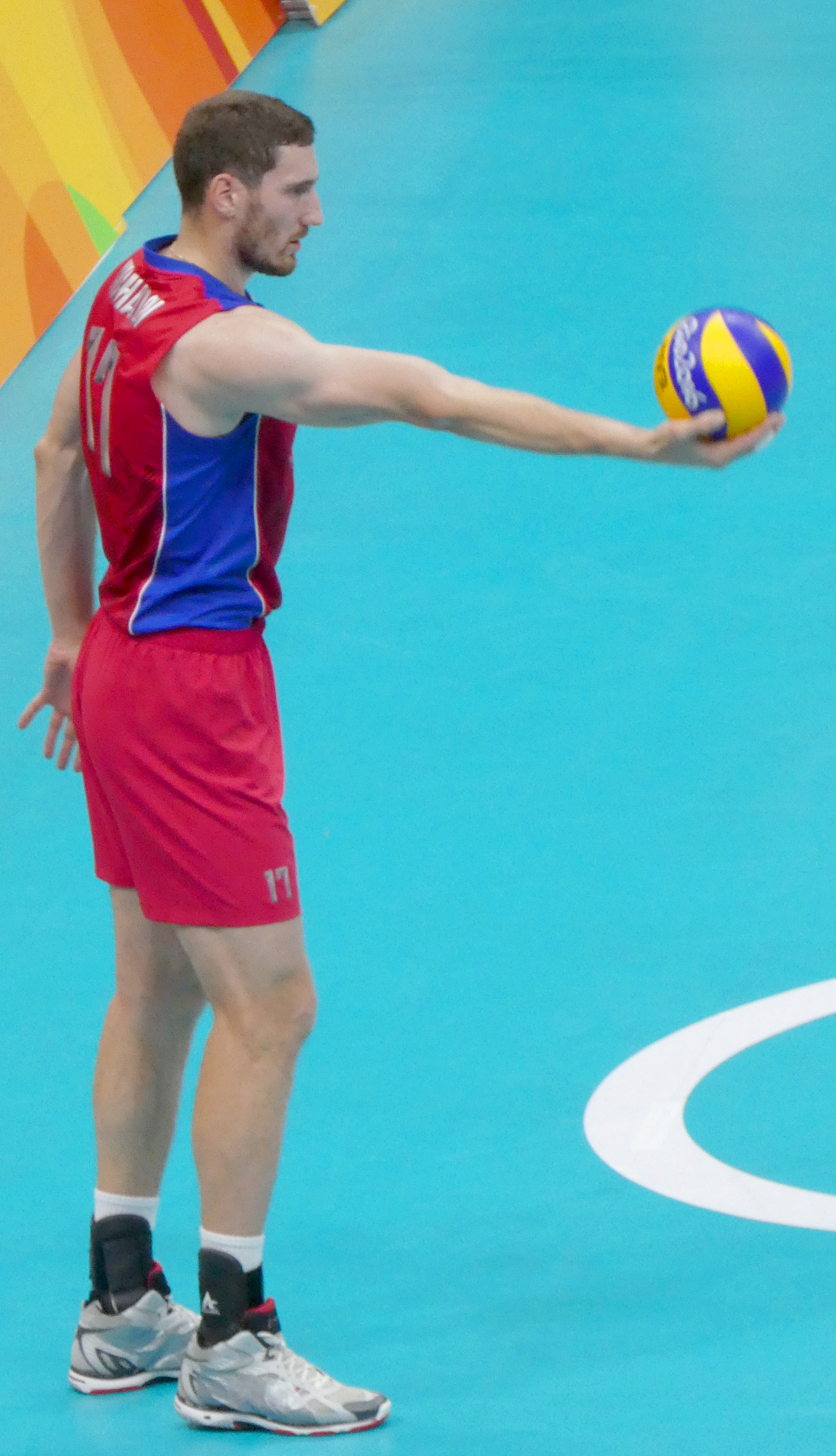 Maxim Mikhaylov serving for Russia at the 2016 Summer Olympics